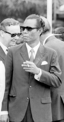 Photograph of Ben Mang Reng Say in 1971, Place unknown